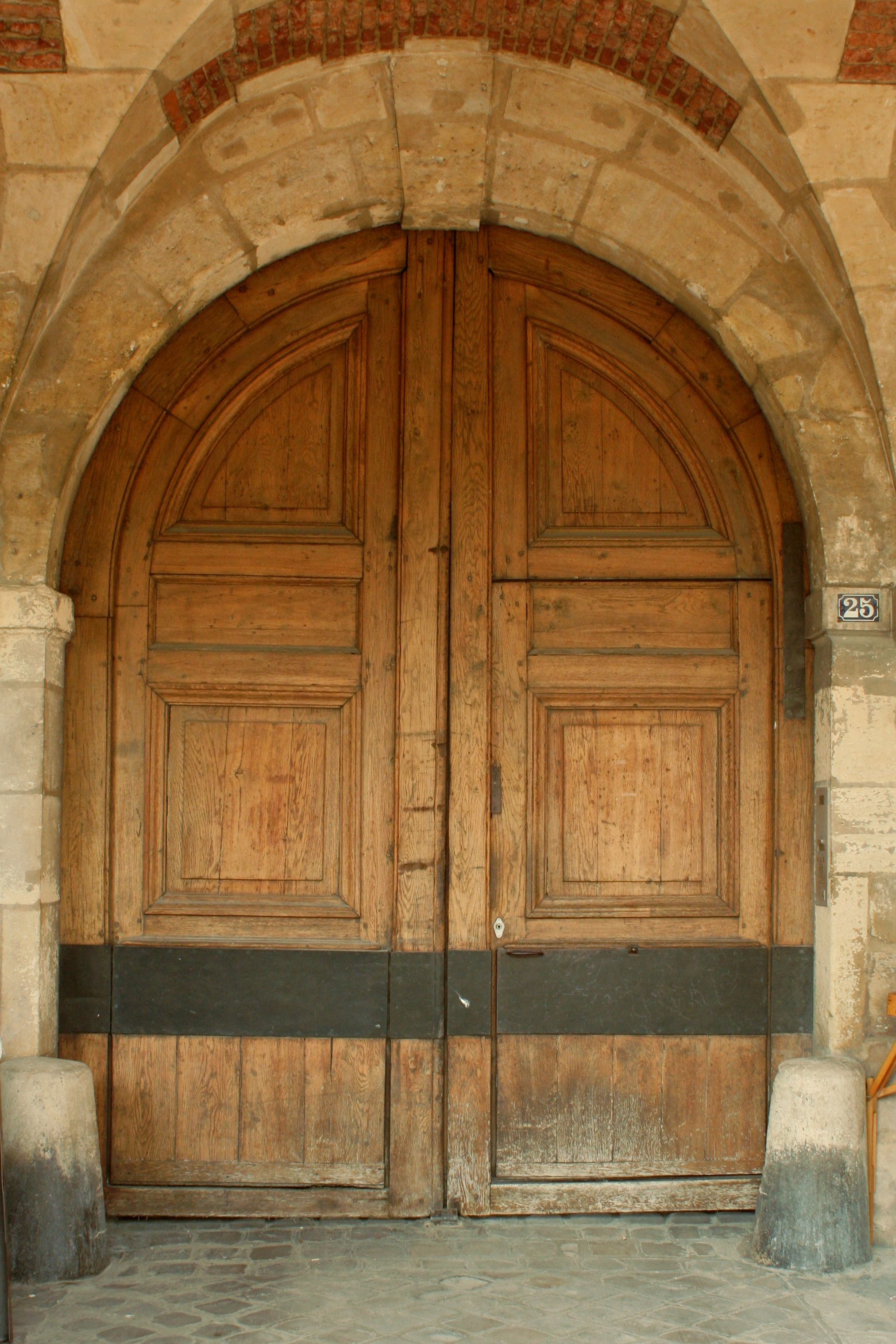 Door of 25 Place des Vosges, Paris.